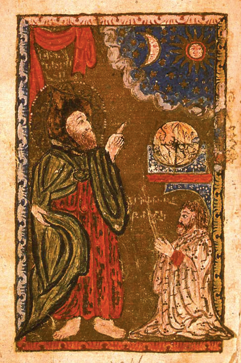 Mekhitar Heratsi and Catholicos Nerses Shnorhali (Mashtots Matenadaran, MS. 7046)